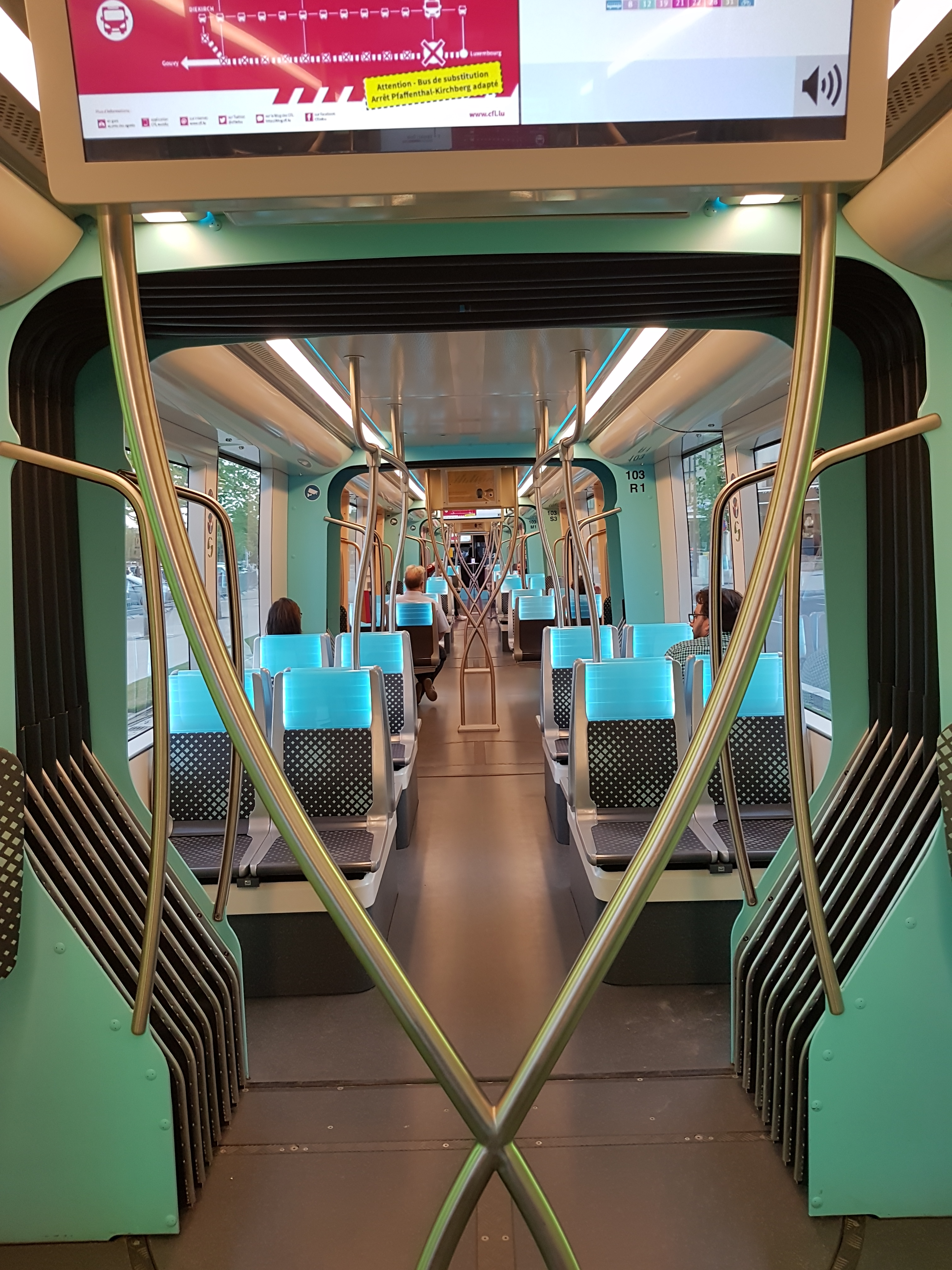 The Stater Tram (Meaning: urban tram) is the tram of the Luxembourg capital, Luxembourg, which opened on 10 December 2017.